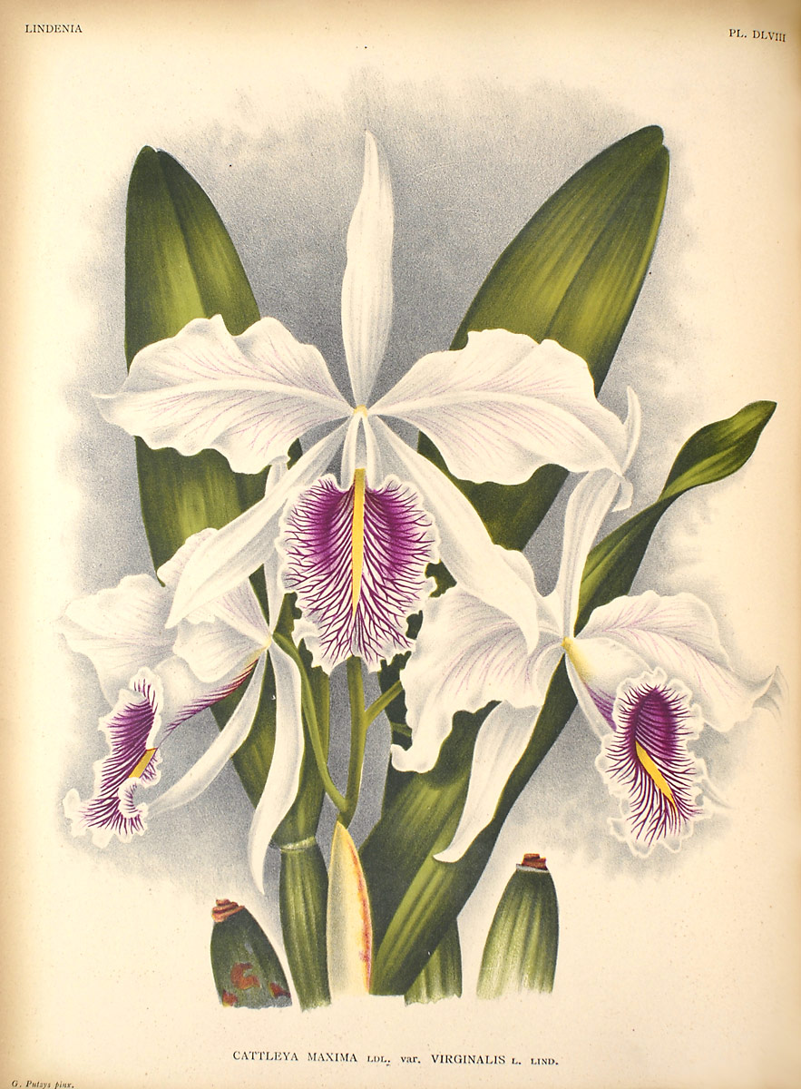 The Greatest Cattleya